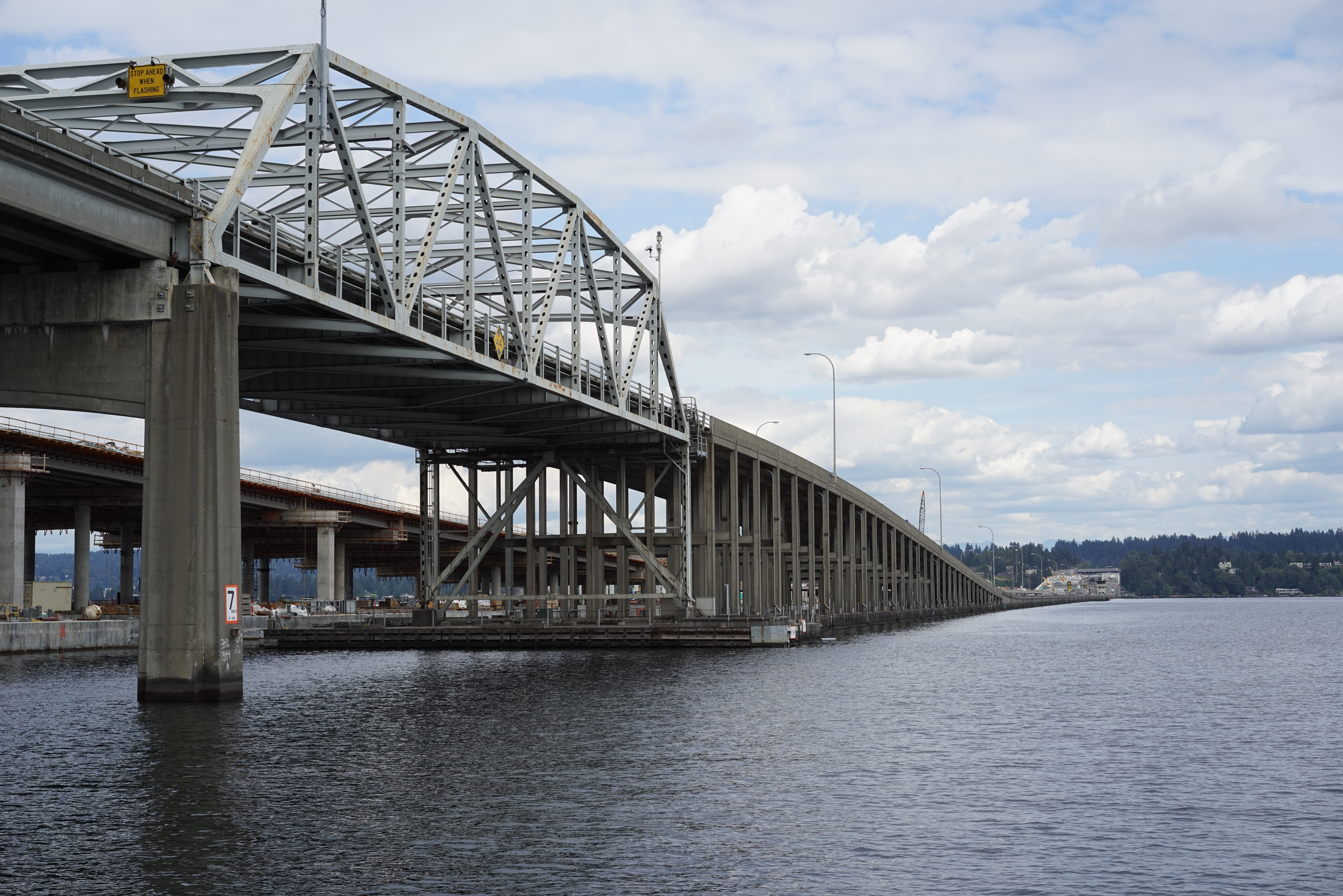 View from a boat underneath Evergreen Point Floating Bridge.